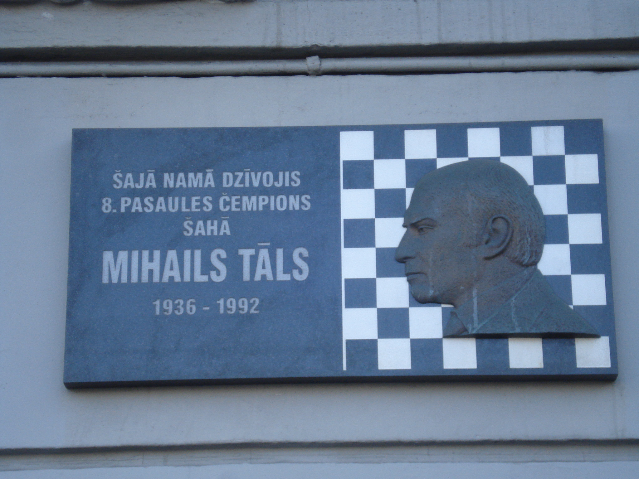 Plaque in memory of Mikhail Tal (1936–1992), the Soviet-Latvian chess Grandmaster and the eighth World Chess Champion, in Riga (Latvia)